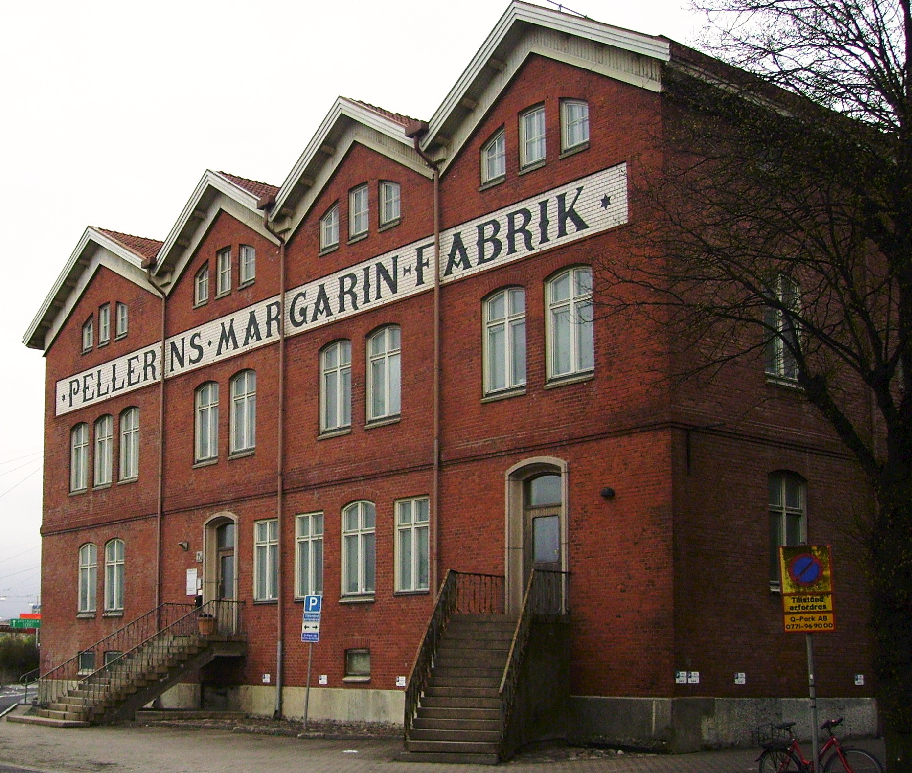 Picture of Pellerin, Swedish factory in Göteborg